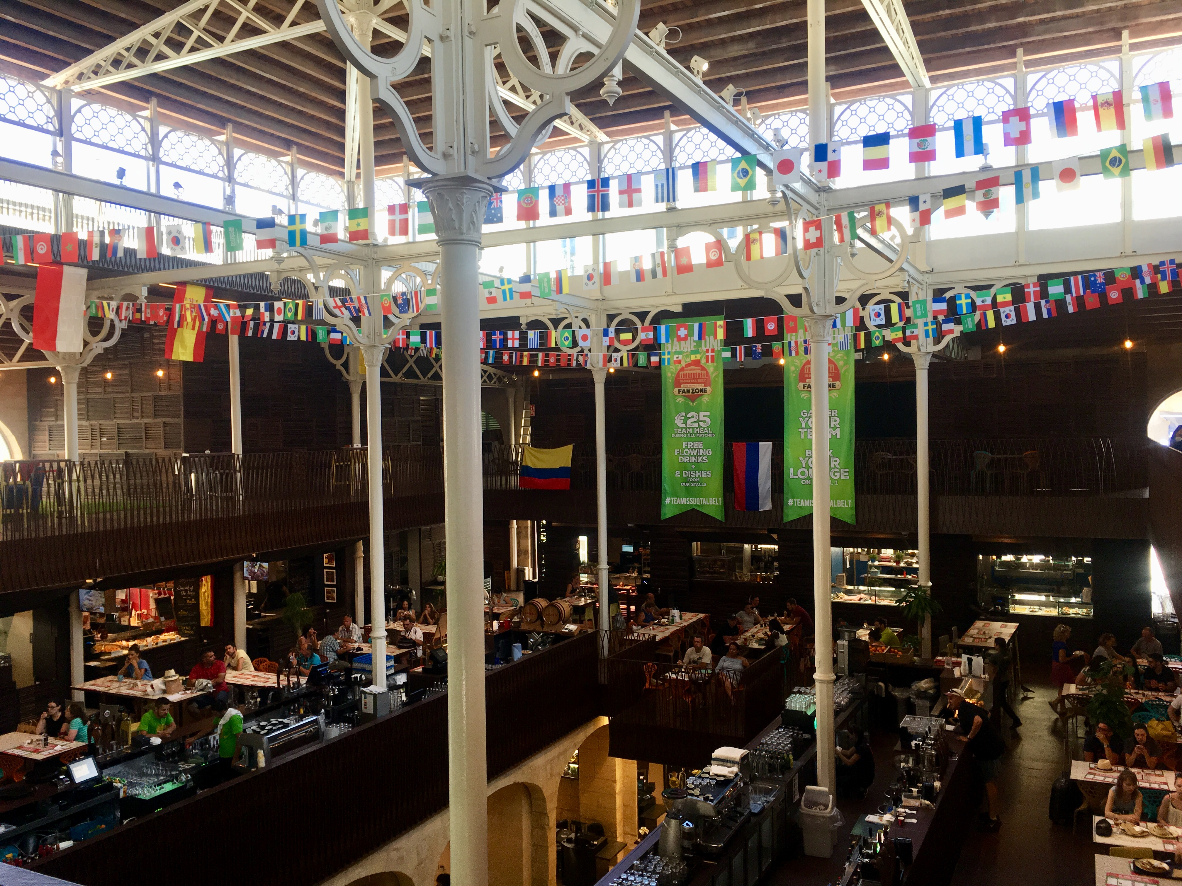 Is-Suq tal-Belt, June 2018